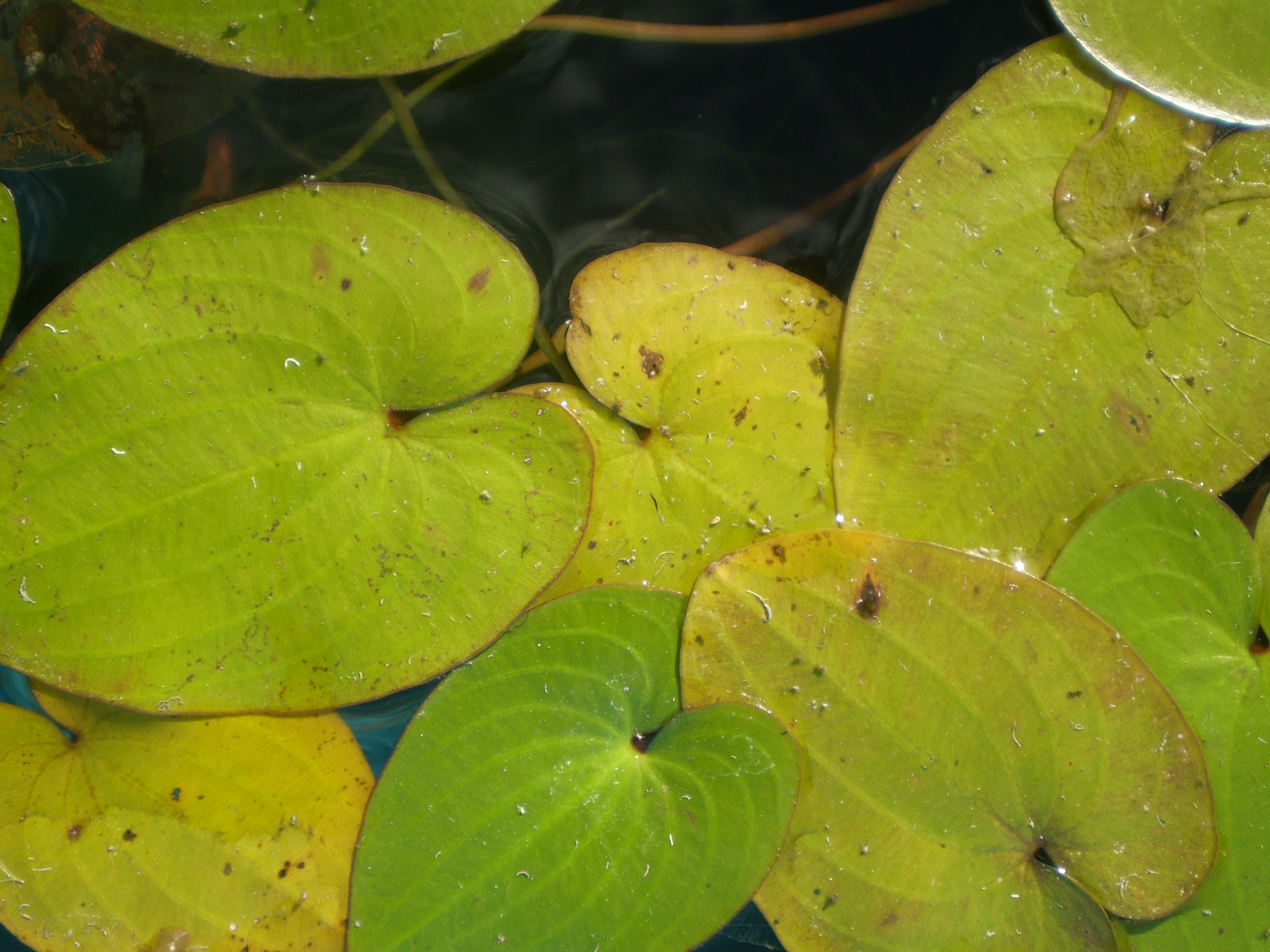 Floating-Leaves of Caldesia parnassifolia